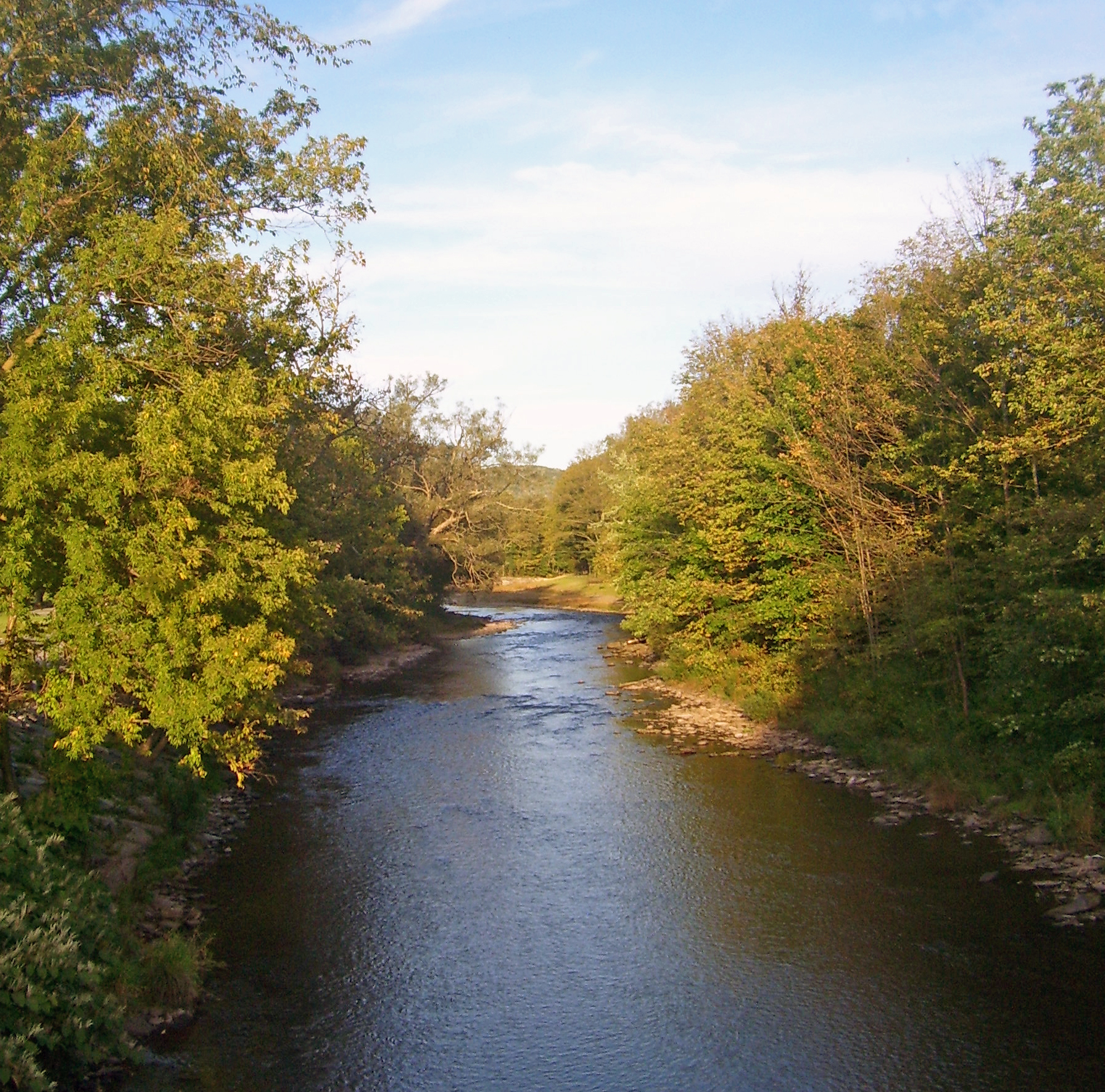 East Branch Delaware River seen from Bridge Street (NY 30) bridge at Margaretville, NY, USA